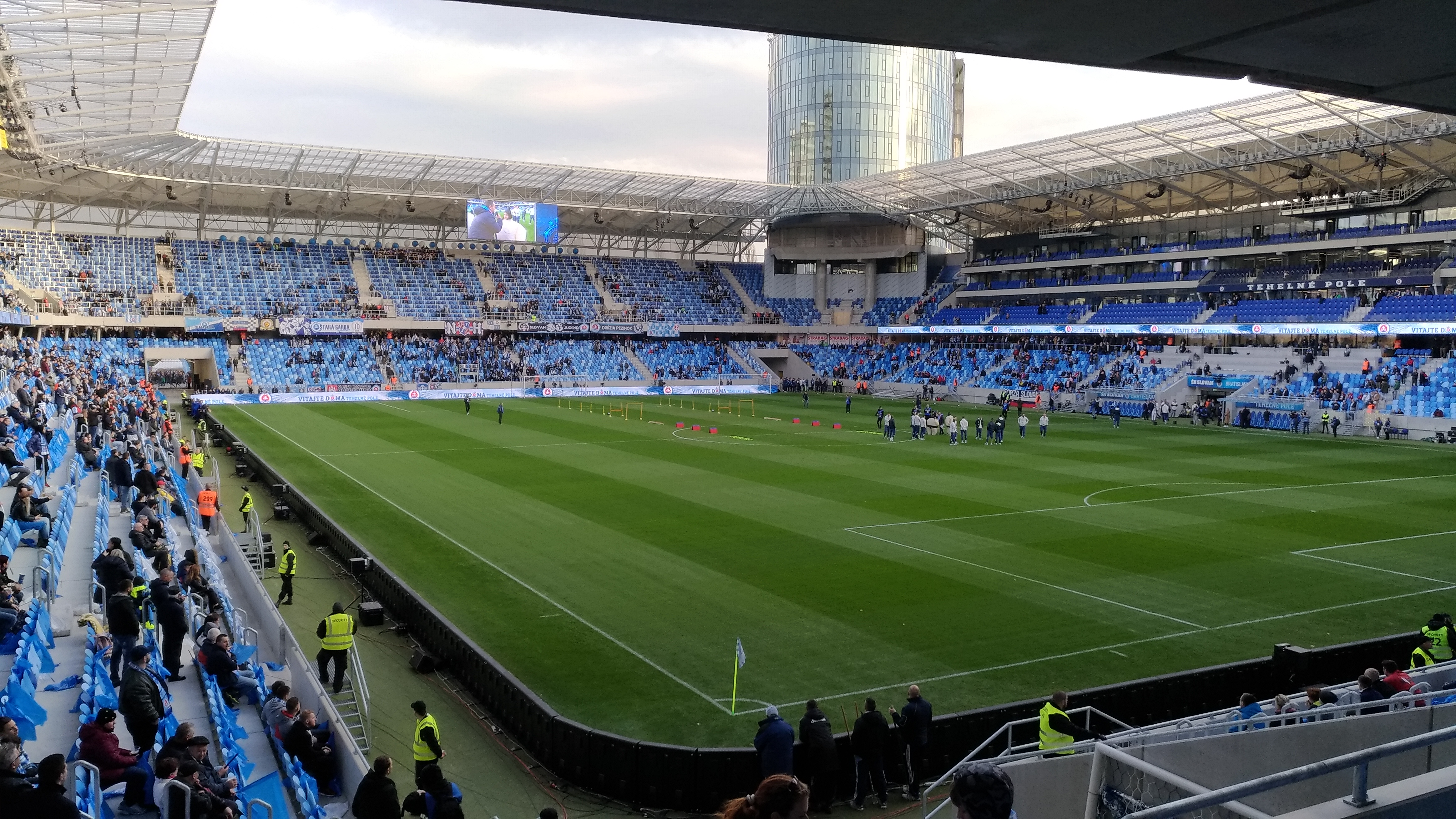 Slovak national stadium Tehelne Pole